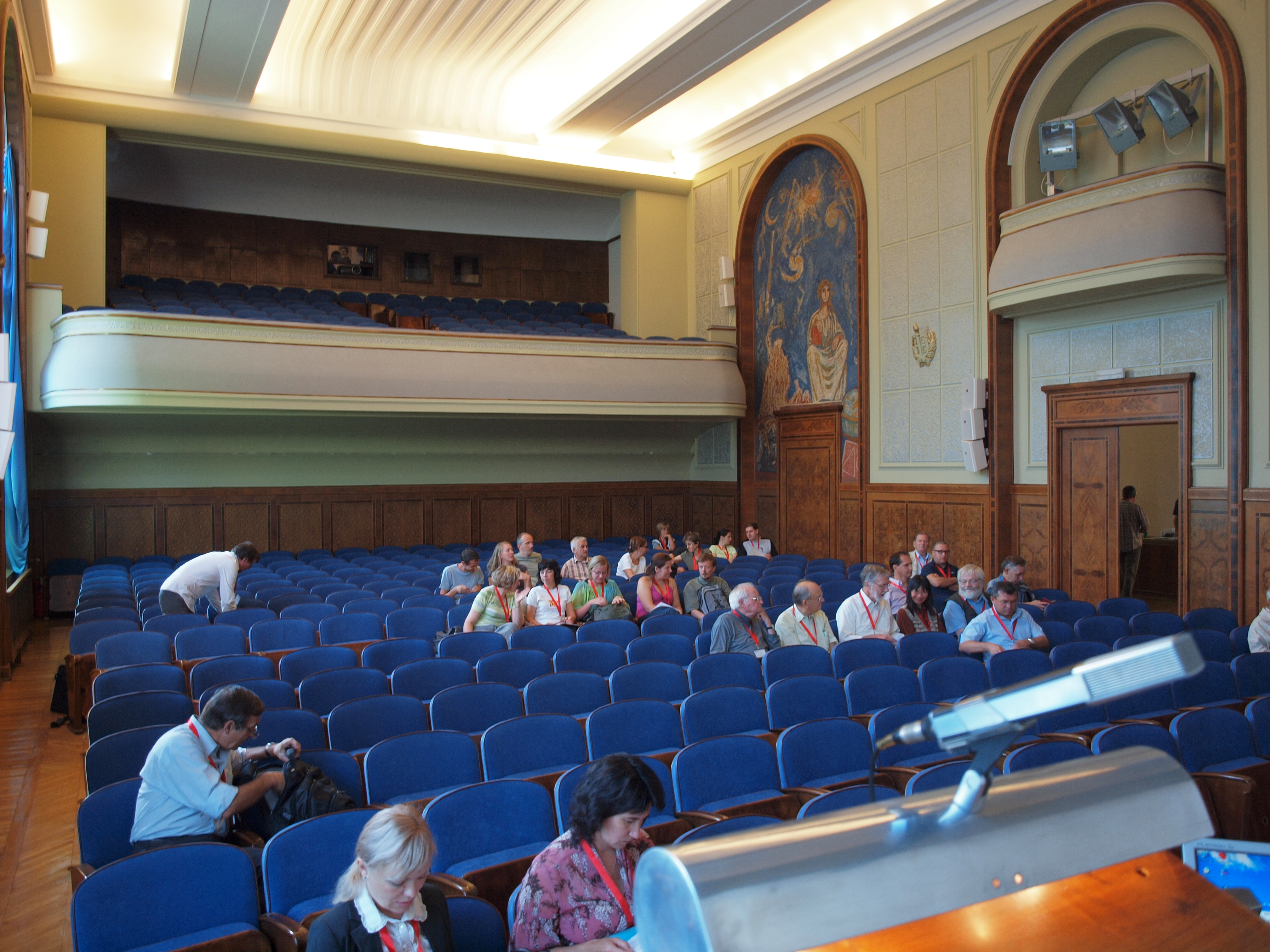 Great hall Serbian academy, Belgrade